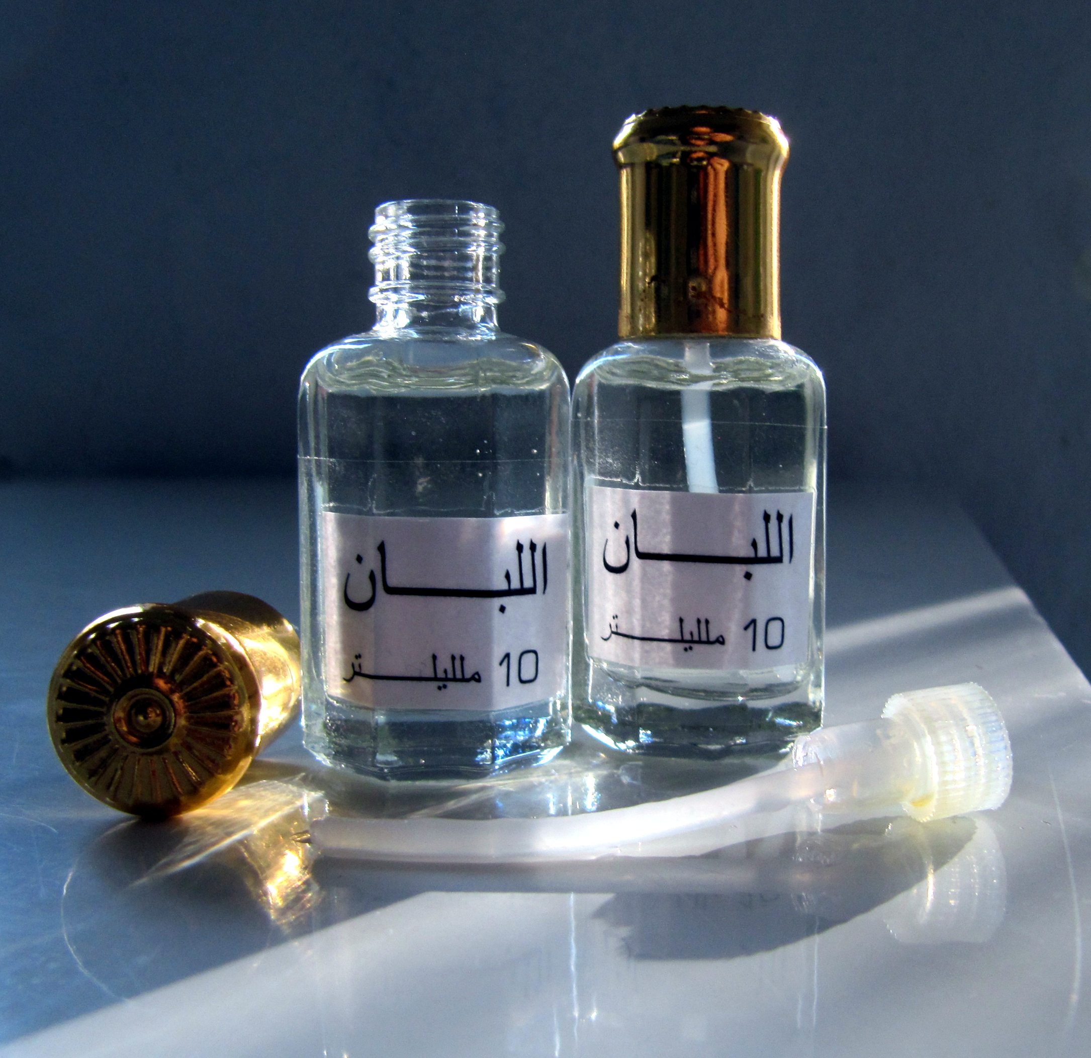 Incense eau de toilette from Oman (2009).